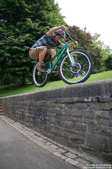 Rowan in action